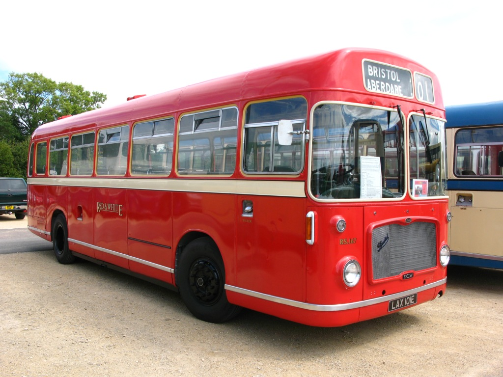 A preserved Red and White Services bus at the Bristol Vintage Bus Group's 2011 open day. It is a Bristol RESL chassis with Eastern Coach Works body, registration LAX 101E, fleet number RS167.